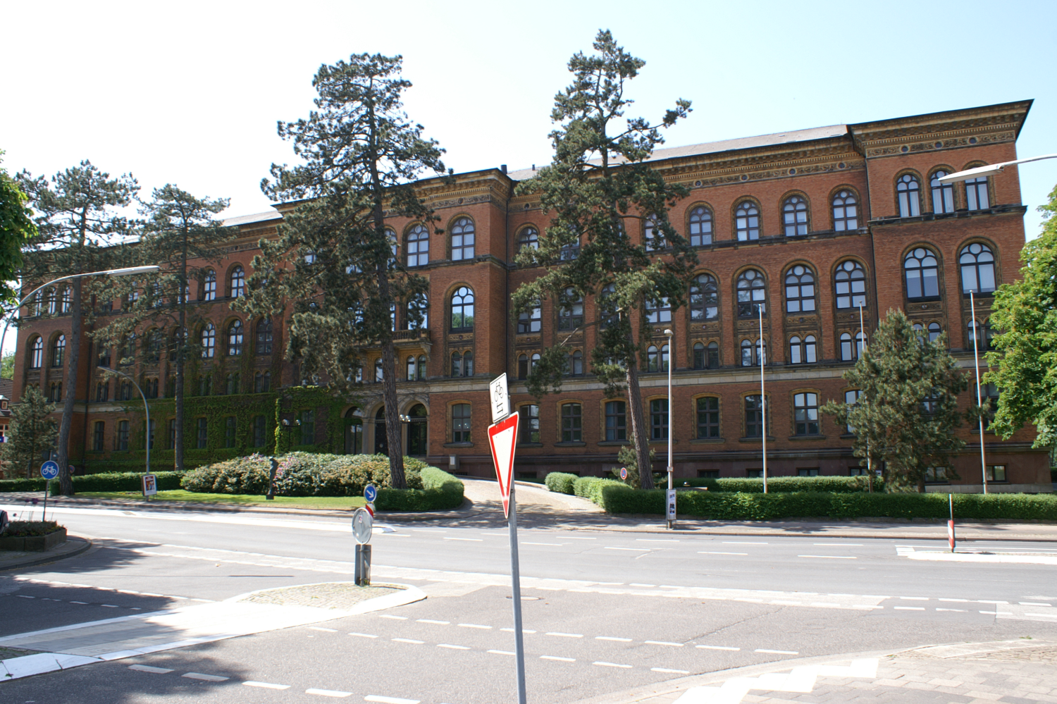 Oberlandesgericht of Schleswig-Holstein in Schleswig.Slang: "Red Elephant".